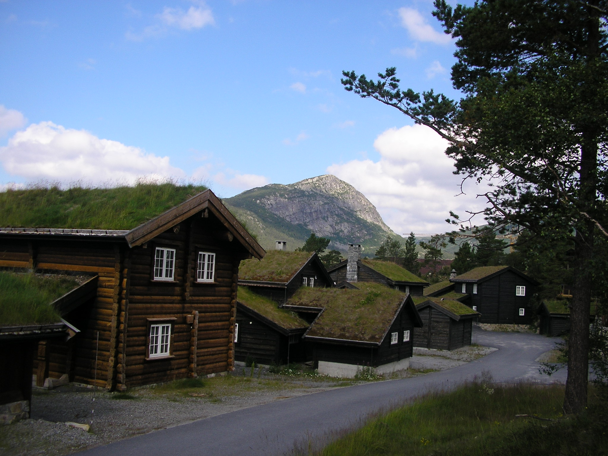 Belonging to Chris's generous employers!